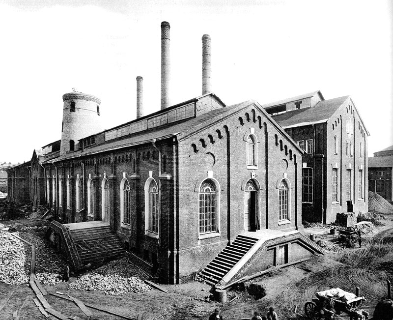 Moscow Gas Plant, 1890s.